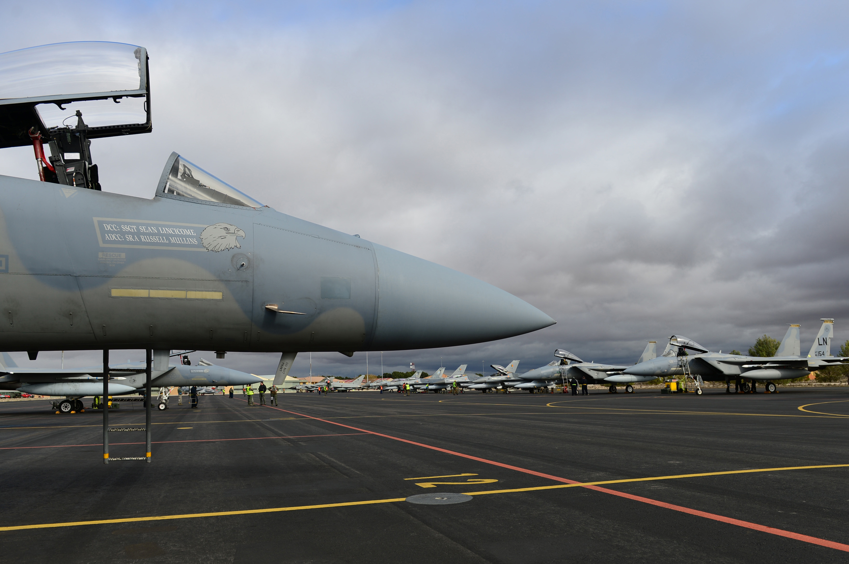 U.S. Air Force F-15C Eagle aircraft assigned to the 493rd Fighter Squadron sit on the flight line during the Tactical Leadership Program (TLP) at Albacete Air Base, Spain, Jan. 18, 2013. The TLP is a multi-national program that enhances key leadership and mission planning skills needed for NATO operations.